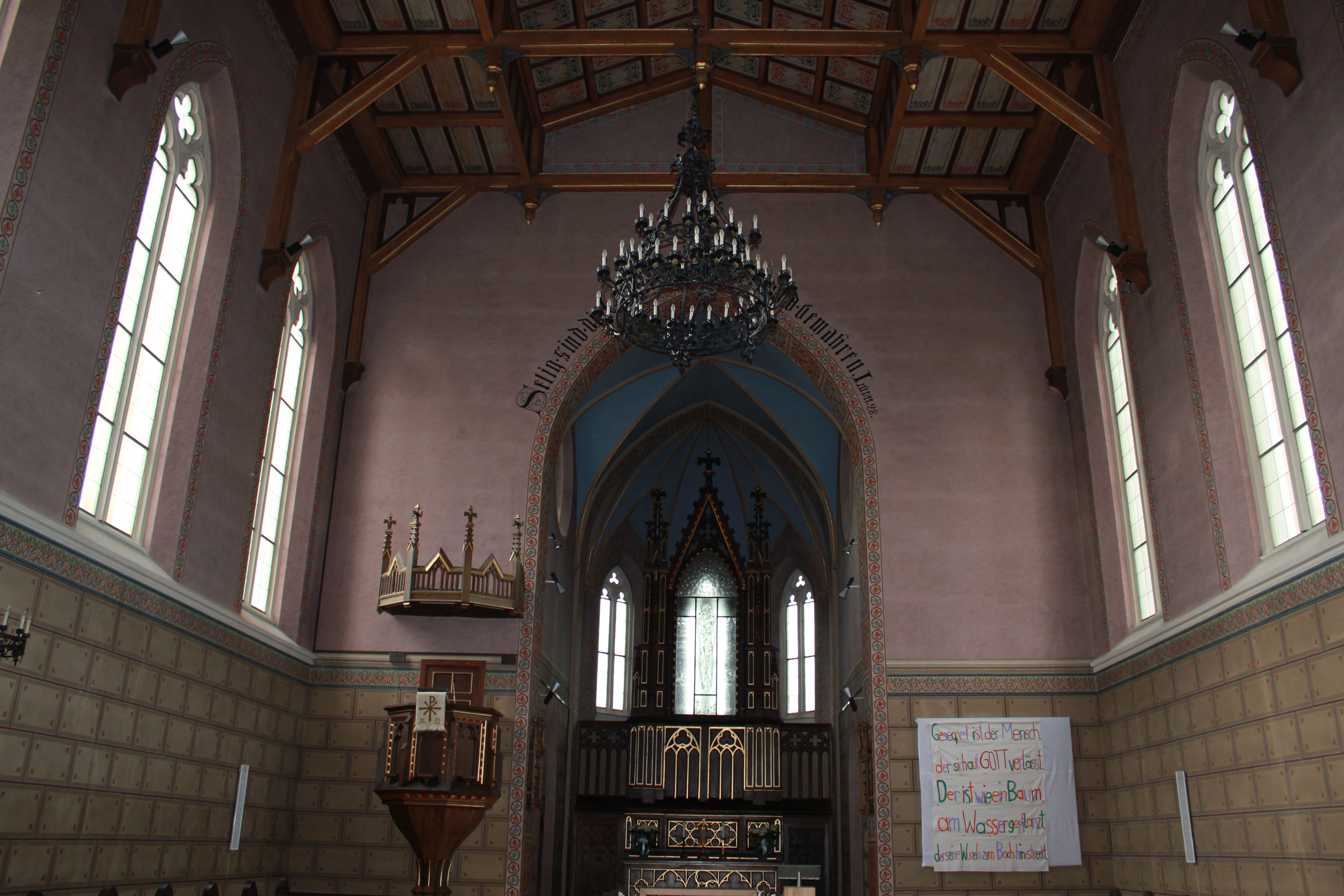 Lutherian Saint John church in Klagenfurt - interior